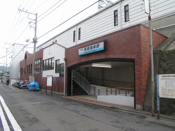 Mabori Kaigan station entrance